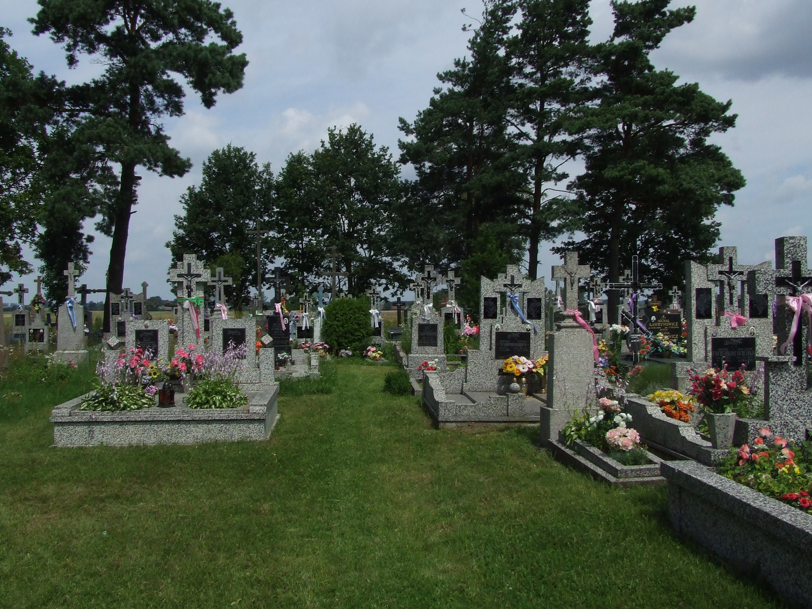 This photo from Podlaskie Voievodeship was taken during Polish Wikiexpedition 2009 set up by Wikimedia Polska Association. The making of this document was supported by Wikimedia Polska. Cemetery in Pasieczniki Dolne